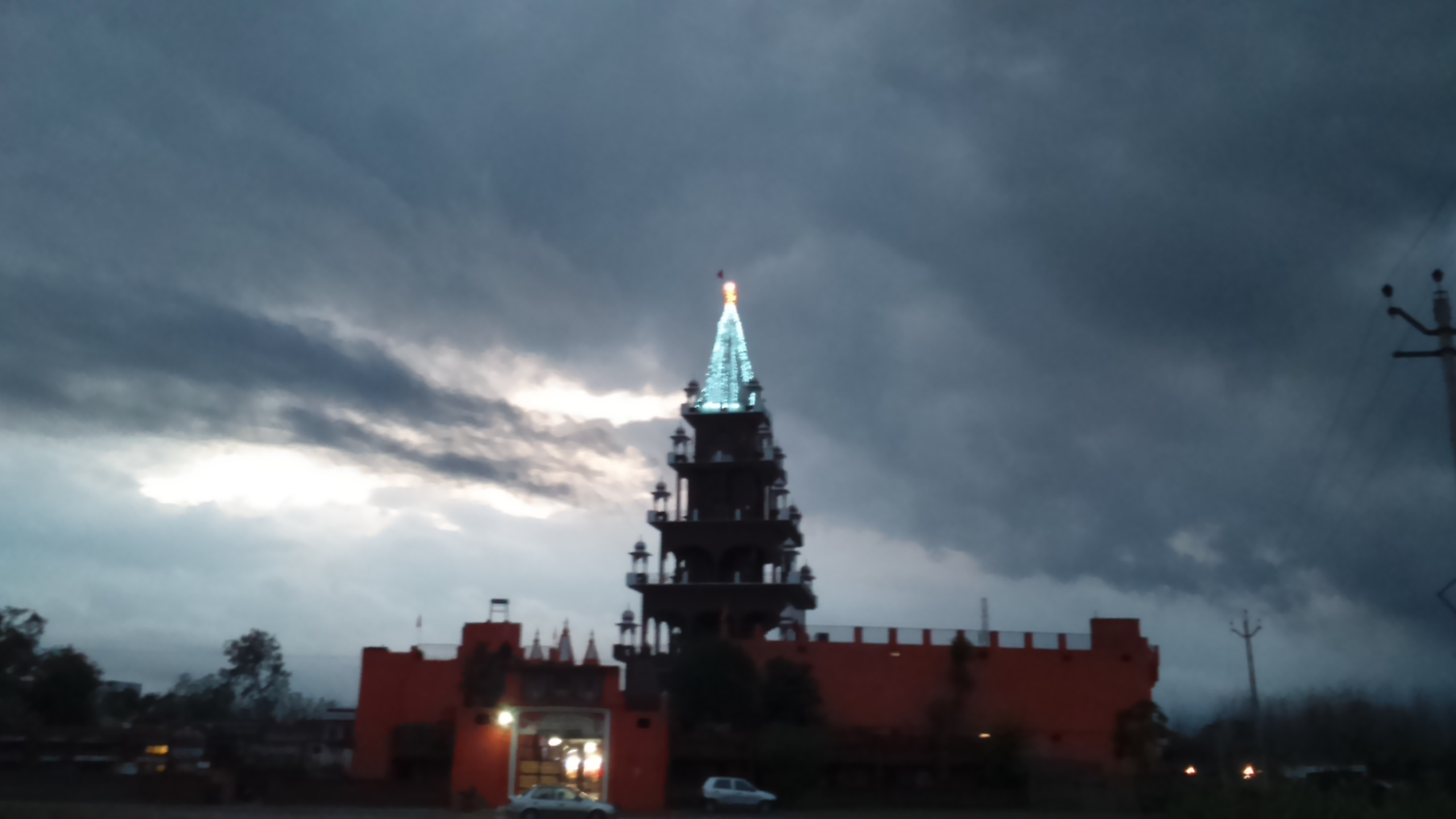 Sarthaleshwar Shiv Temple evening view.